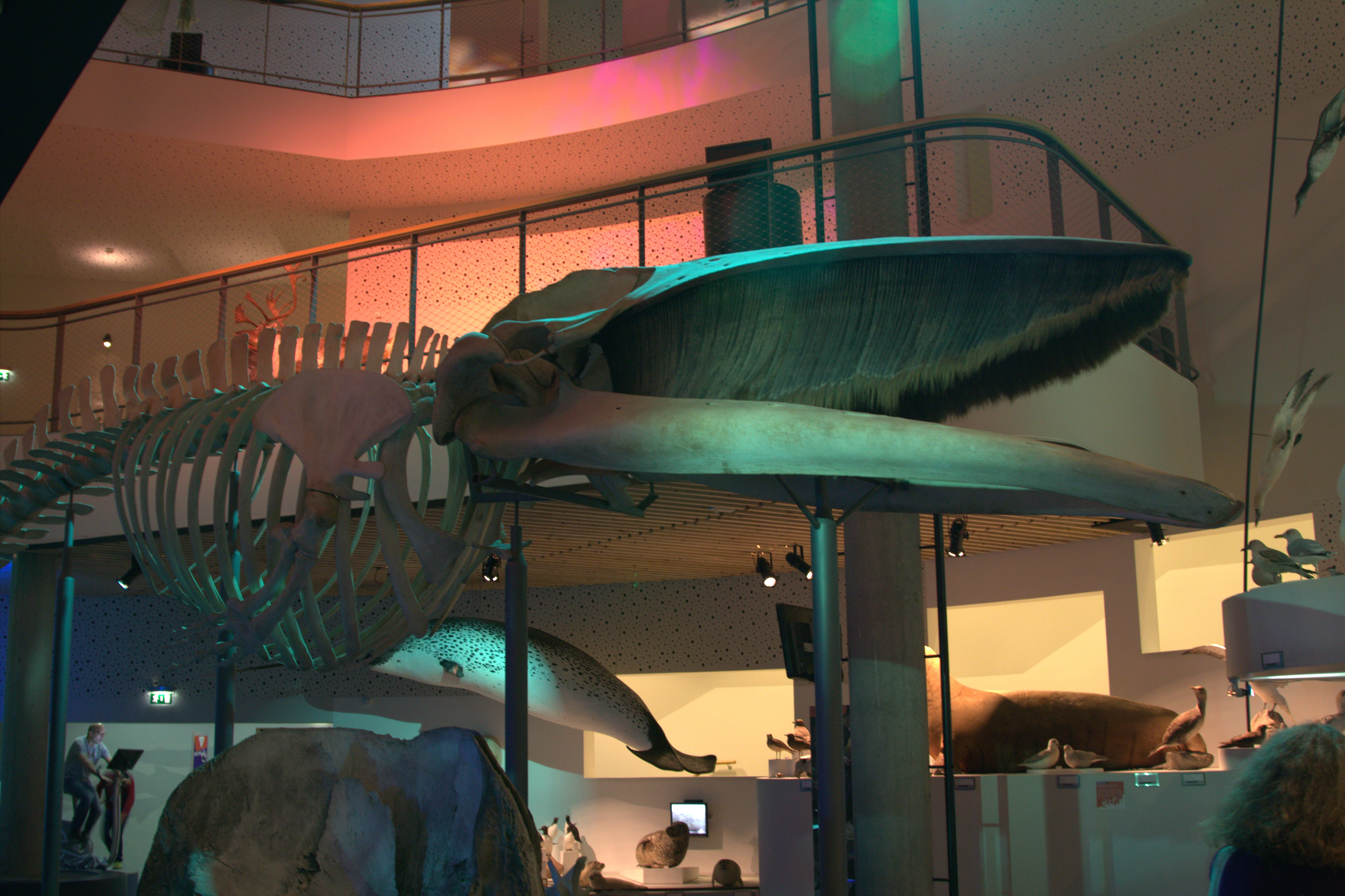 Naturama Svendborg: The modern museum of natural history in Svendborg, Denmark